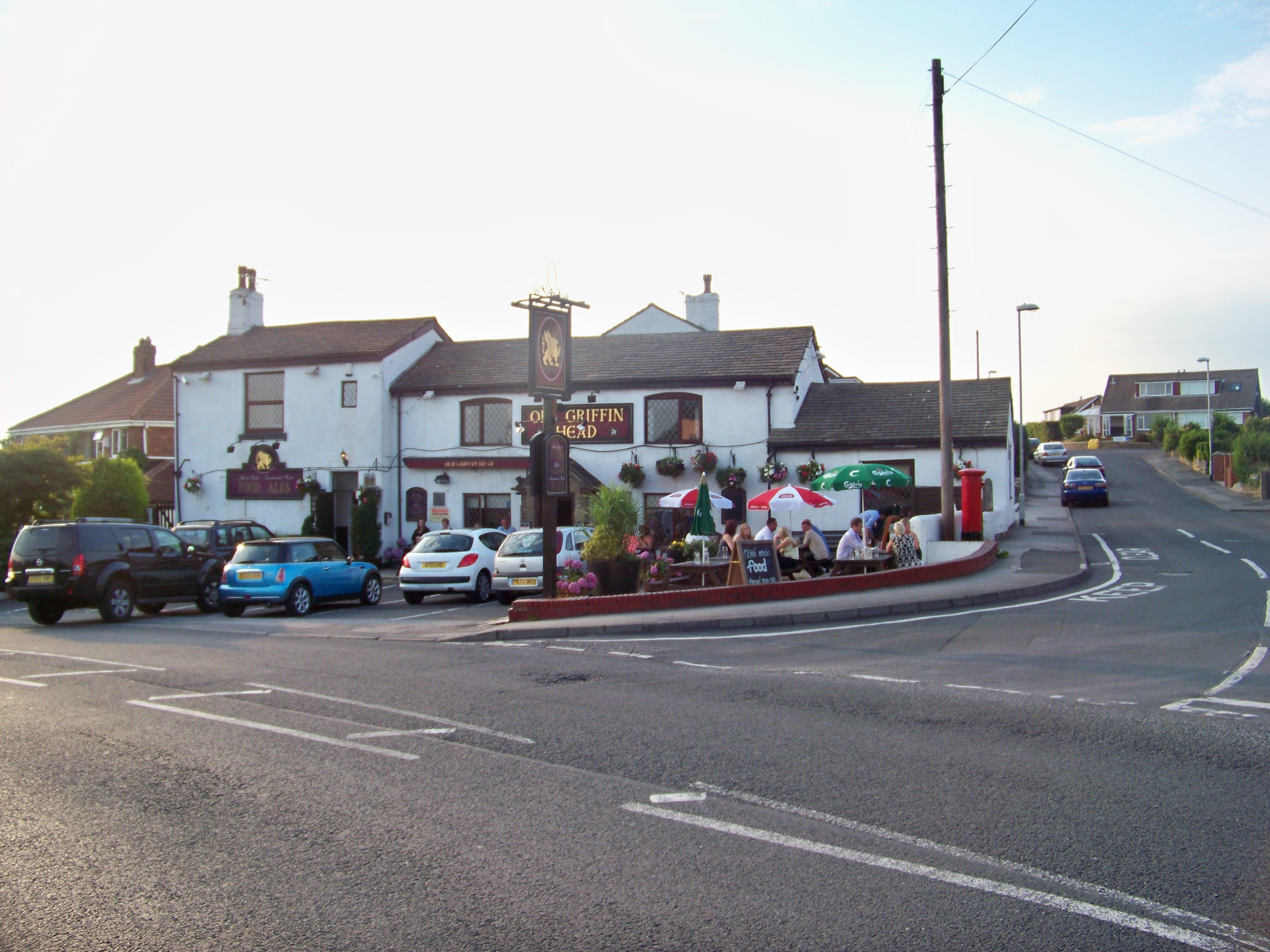 The Old Griffin Head public house, Gildersome, Leeds, West Yorkshire, UK. Taken on the evening of Wednesday 1st July 2009.